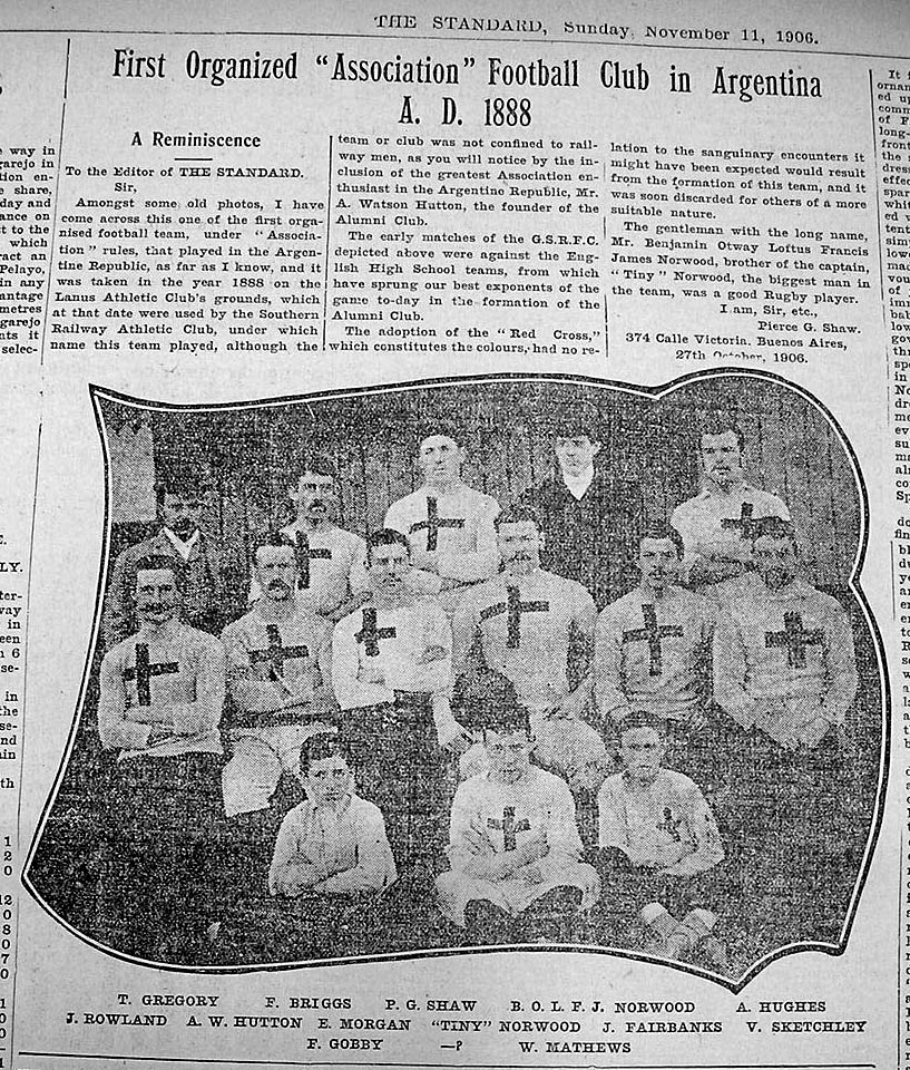 Photo of the "Southern Railway Athletic Club", which might have been the first organised team under the laws of "Association" football. Alexander Watson Hutton (pictured) was as one of the GSRFC players.